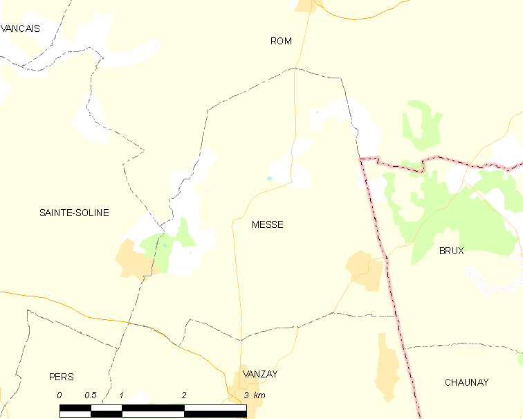 Map of French municipality Messé